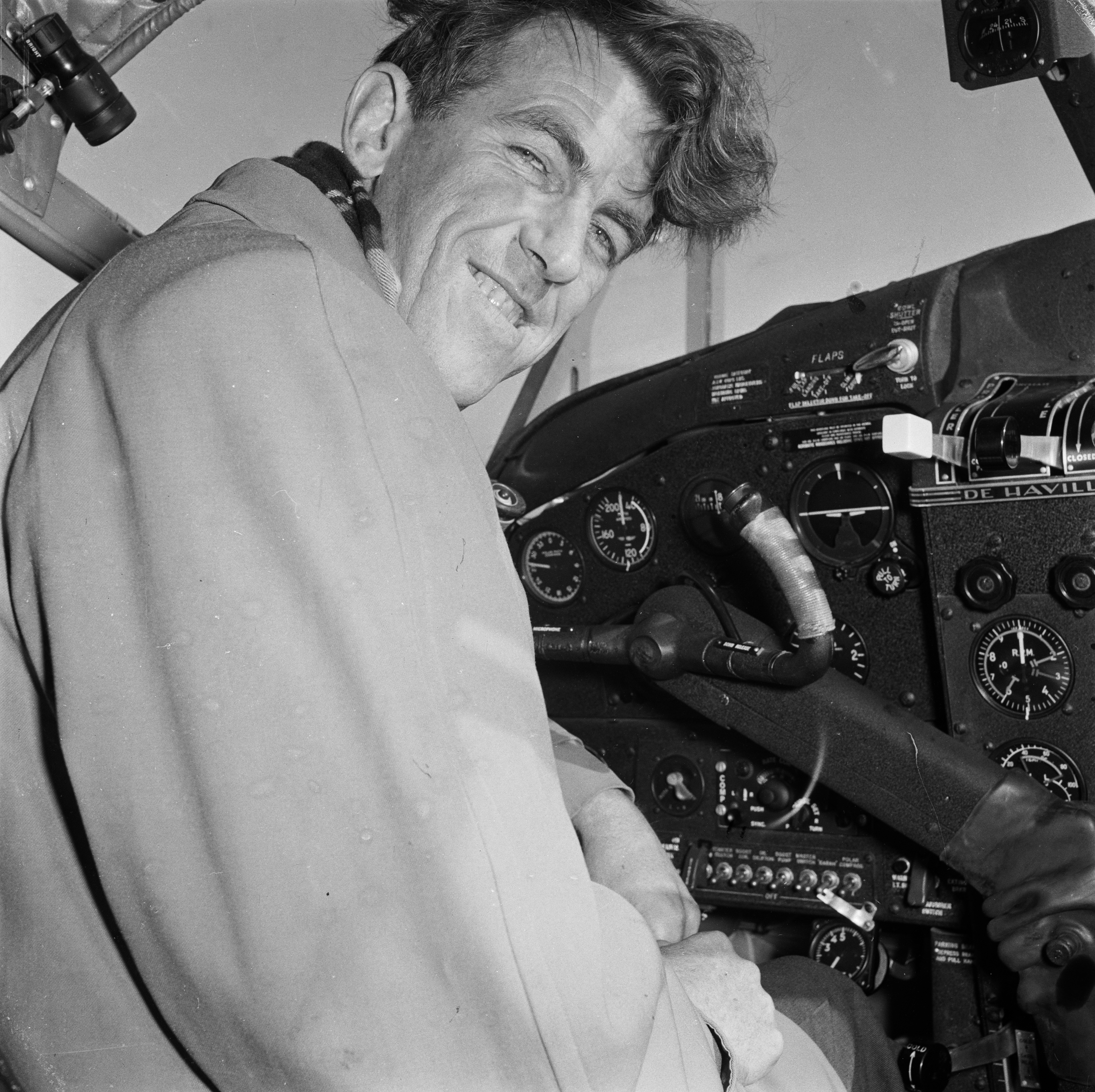 Antarctic Party leader of the Commonwealth Trans-Antarctic Expedition, Sir Edmund Hillary, in the cockpit of the expedition's de Havilland Beaver airplane, at Rongotai Aerodrome (now Wellington International Airport) in Wellington, New Zealand. Photograph taken 20 July 1956 for The Evening Post by an unidentified staff photographer. Published in The Evening Post 21 July 1956. Physical Description: Cellulose triacetate negative, 5.6 x 5.6 cm.